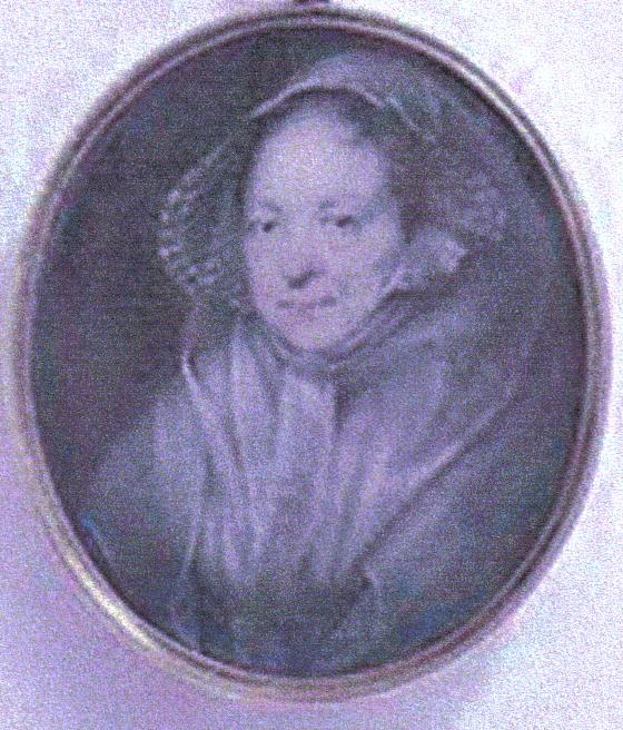 Lady Susanna Montgomery, Dowager Countess of Eglinton in her 80s whilst living at Auchans Castle, South Ayrshire, Scotland.